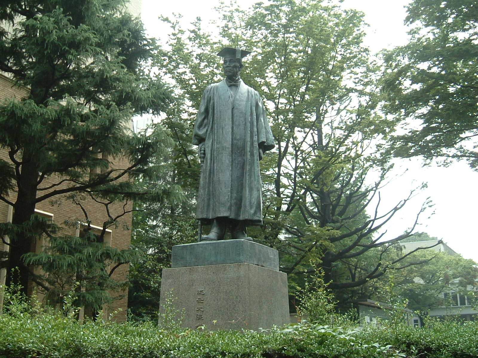 Photograph of the statue of Okuma Shigenobu (大隈重信) in Waseda University (早稲田大学)